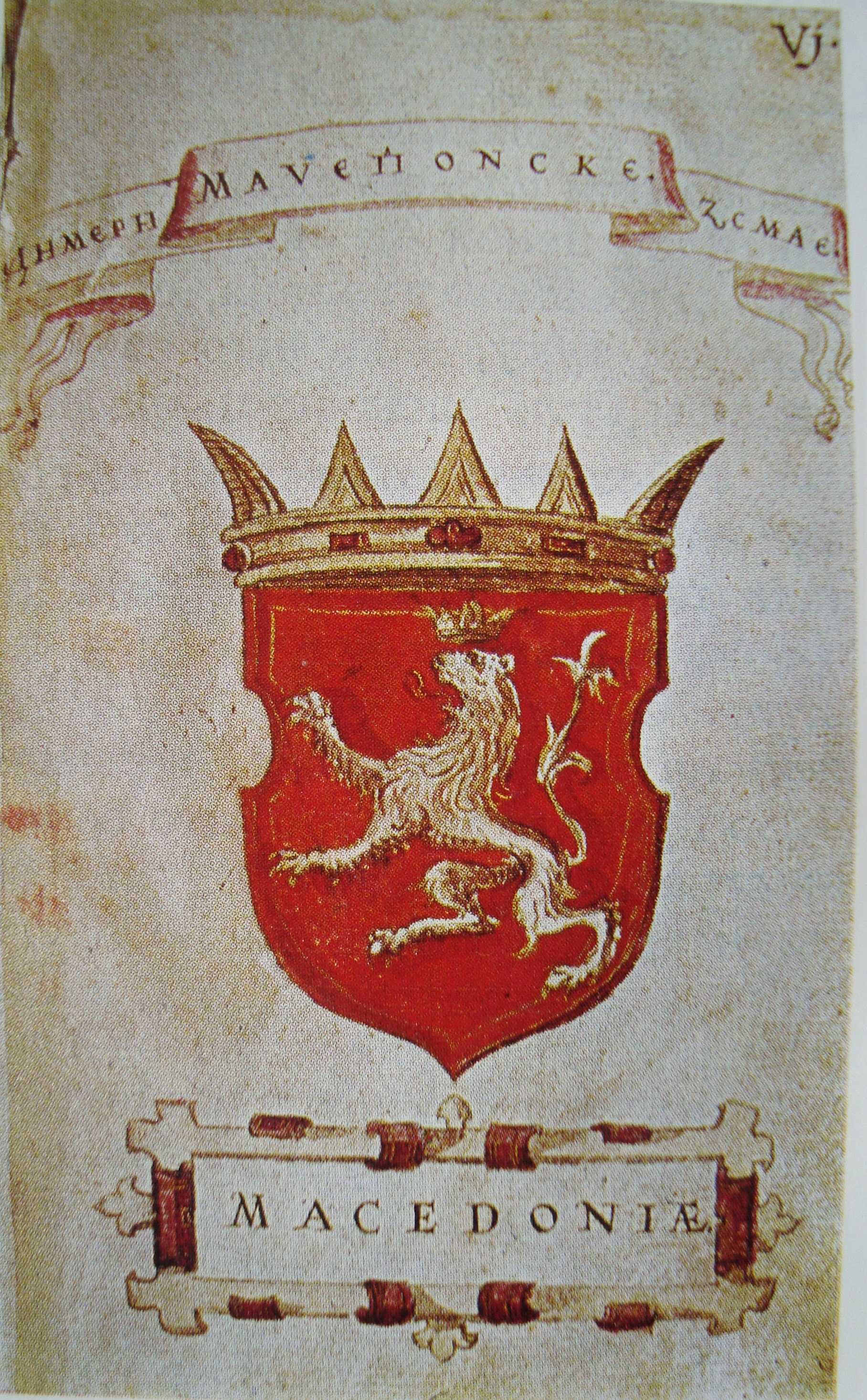 The coat of arms of Macedonia from 1595.